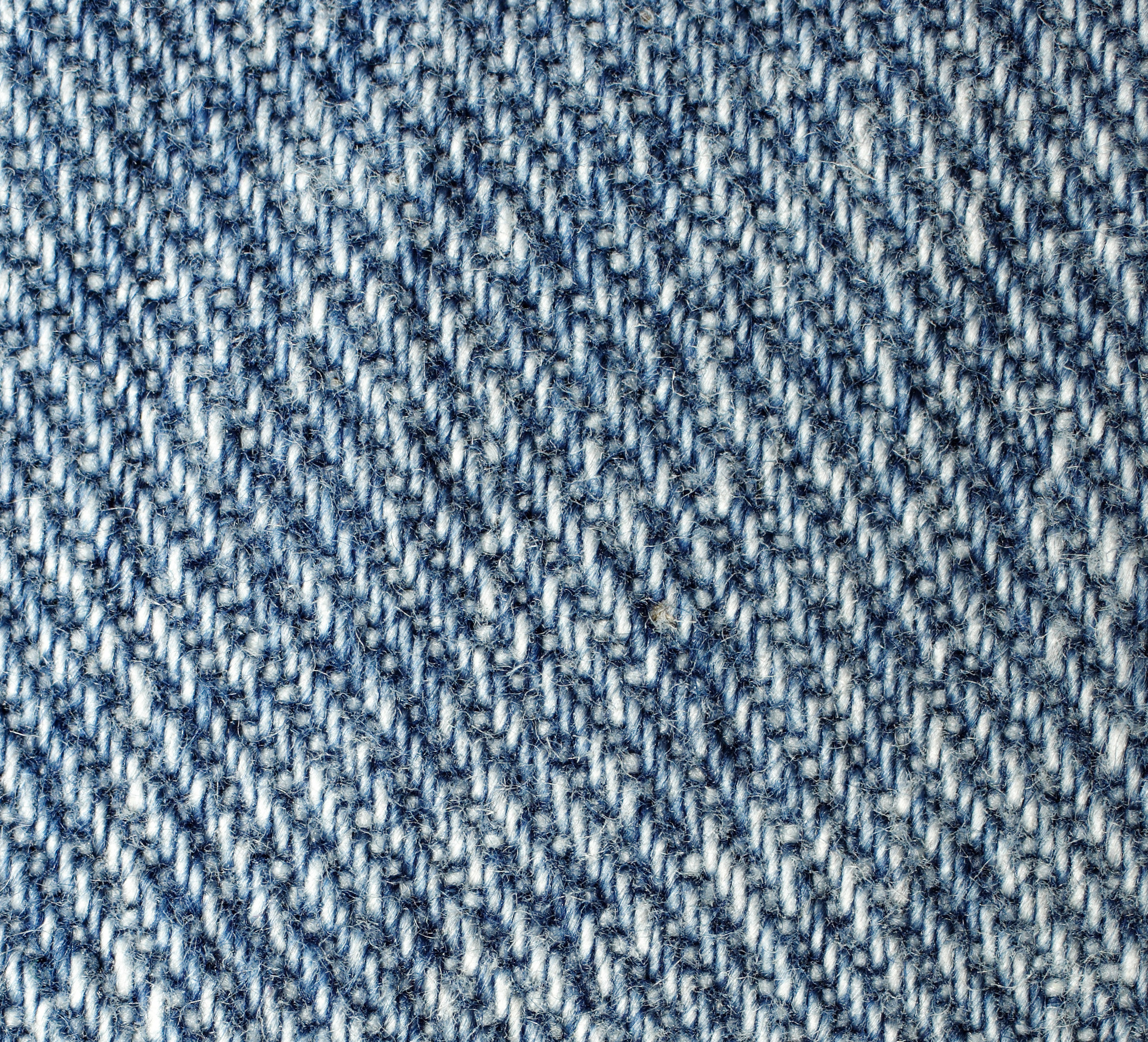 Denim, the jeans fabric